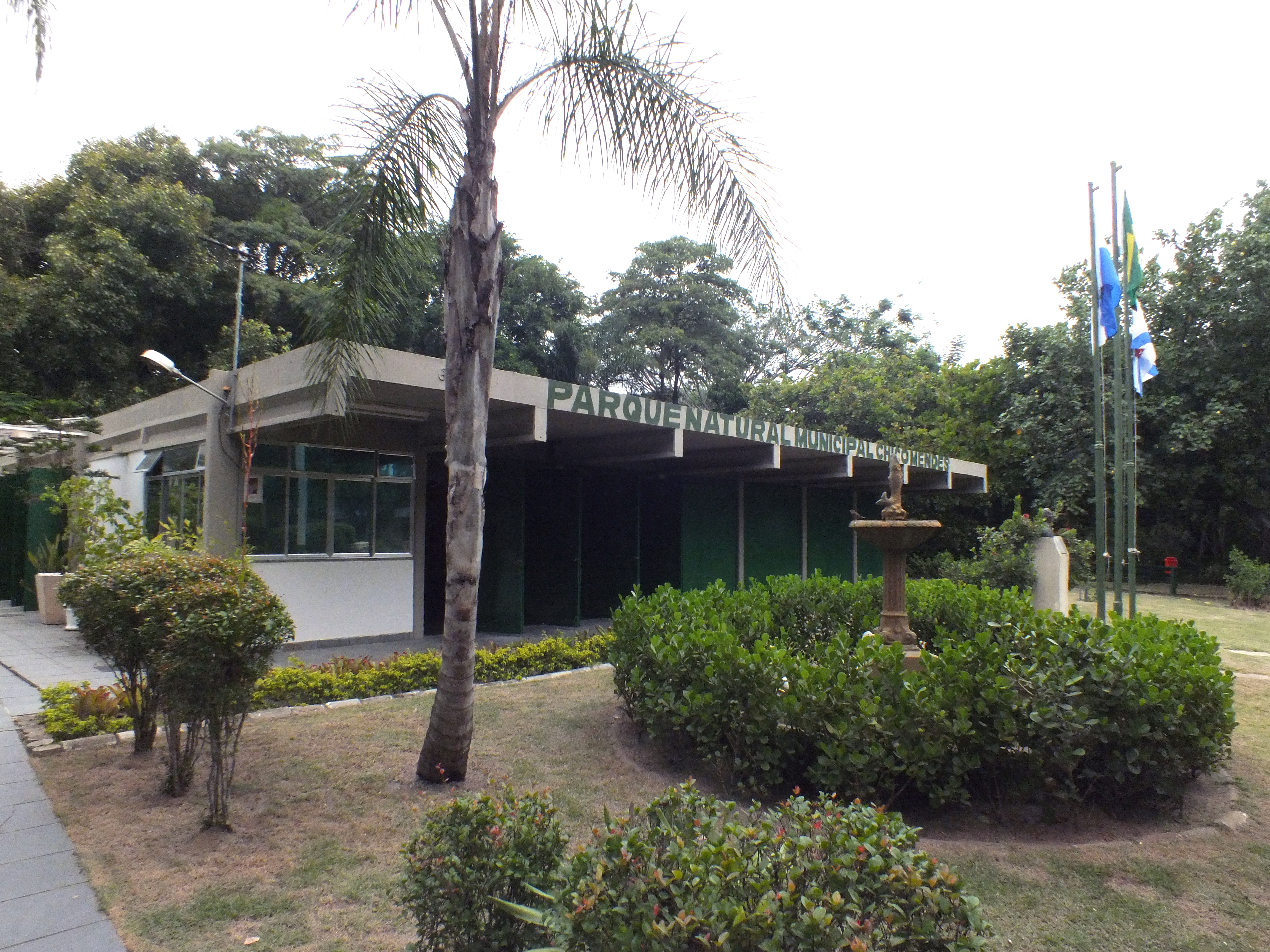 Main building of Parque Ecológico Chico Mendes, Rio de Janeiro